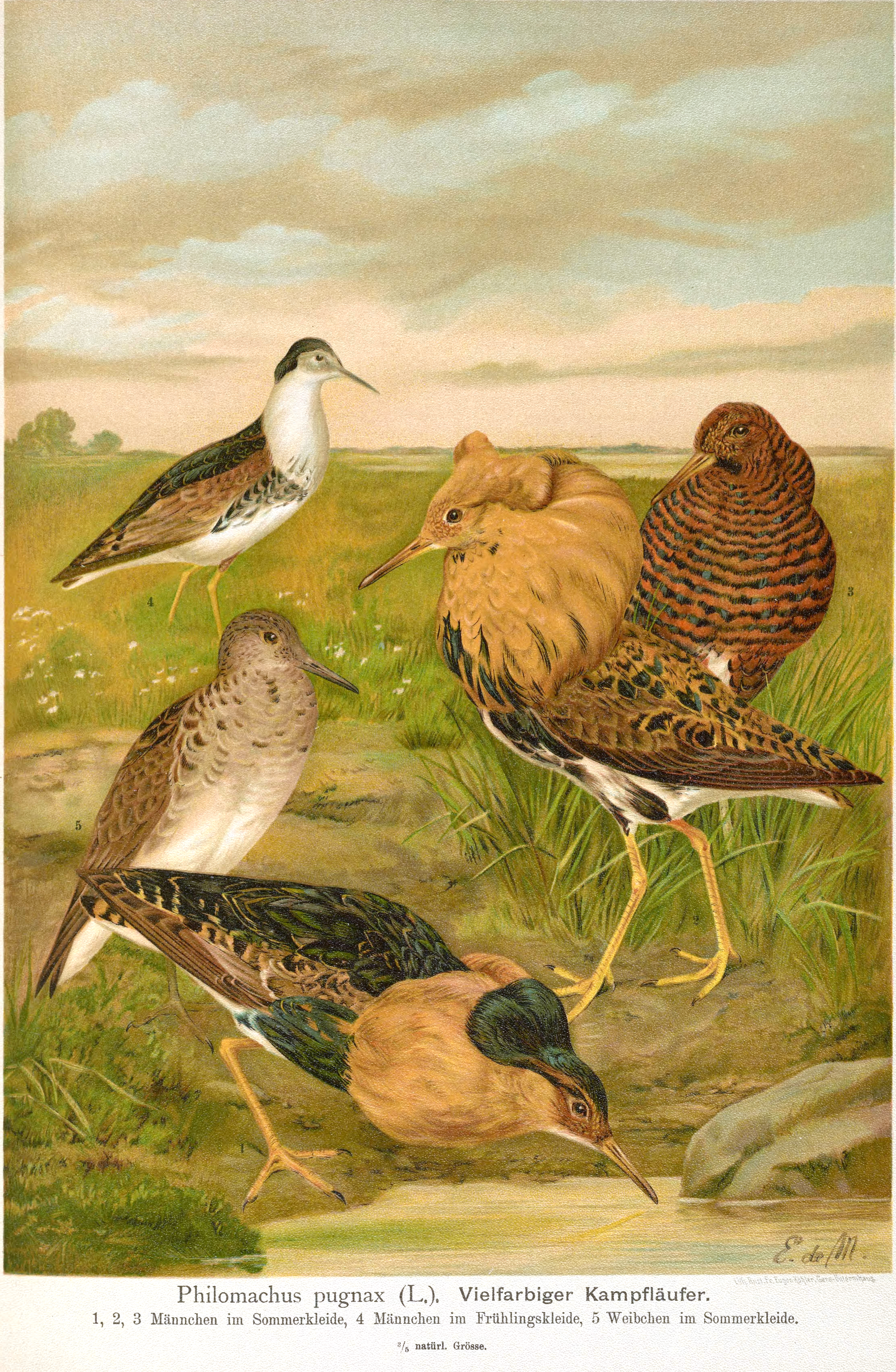 Philomachus pugnax Ruff from old german enc